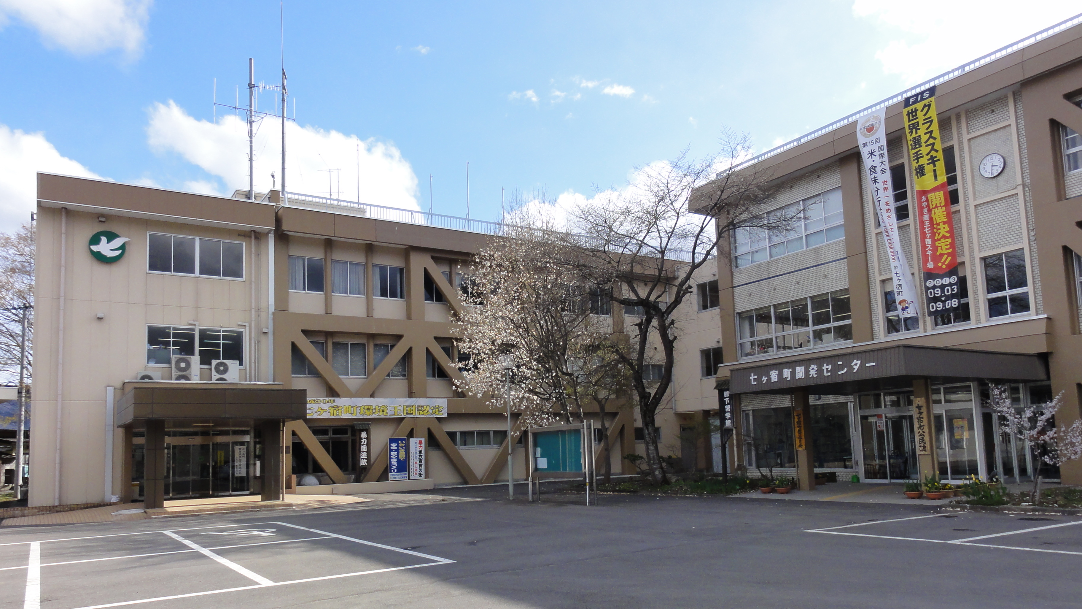 Shichikashuku town office,Miyagi prefecture,Japan